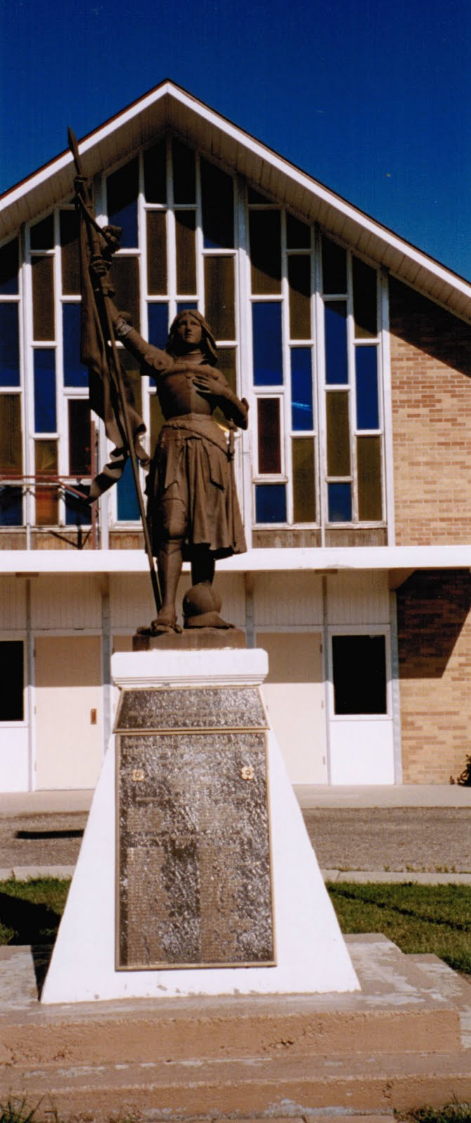 This photo was taken by kayoty (RD Laloche) in 1998 in Domremy, Saskatchewan. It features the Joan of Arc statue in front of the St. Joan of Arc Roman Catholic in Domremy.